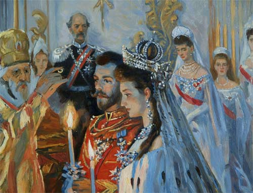 The wedding of Tsar Nicholas II of Russia and the Princess Alix of Hesse-Darmstadt, which took place at the Chapel of the Winter Palace, St. Petersburg, on 14/26 November 1894. Behind the bride the Dowager Empress Maria Fyodorovna. Detail from Wedding of Nicholas II and Alexandra Feodorovna by Laurits Tuxen (1895, Hermitage).jpg